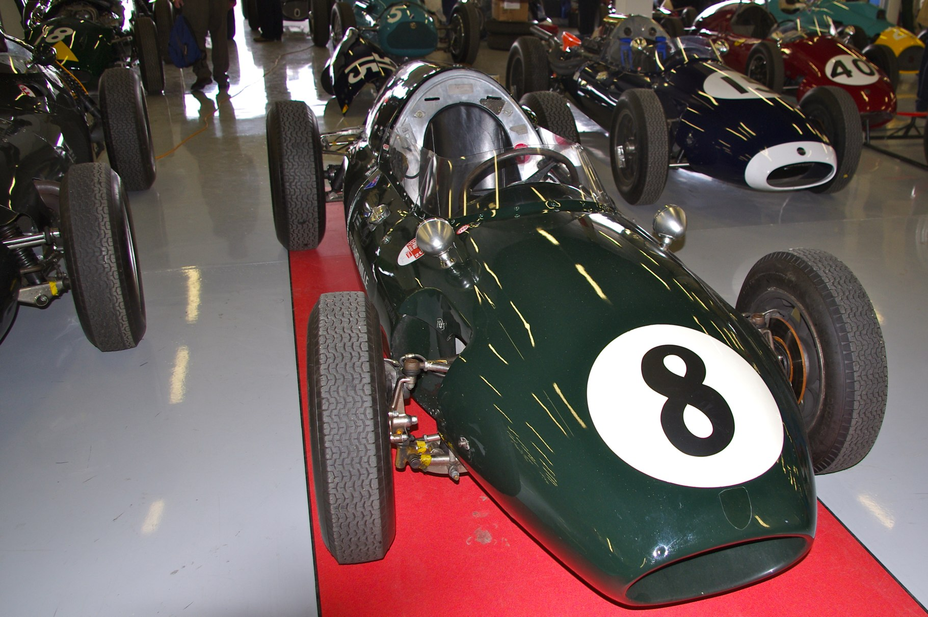 Silverstone Classic 2011